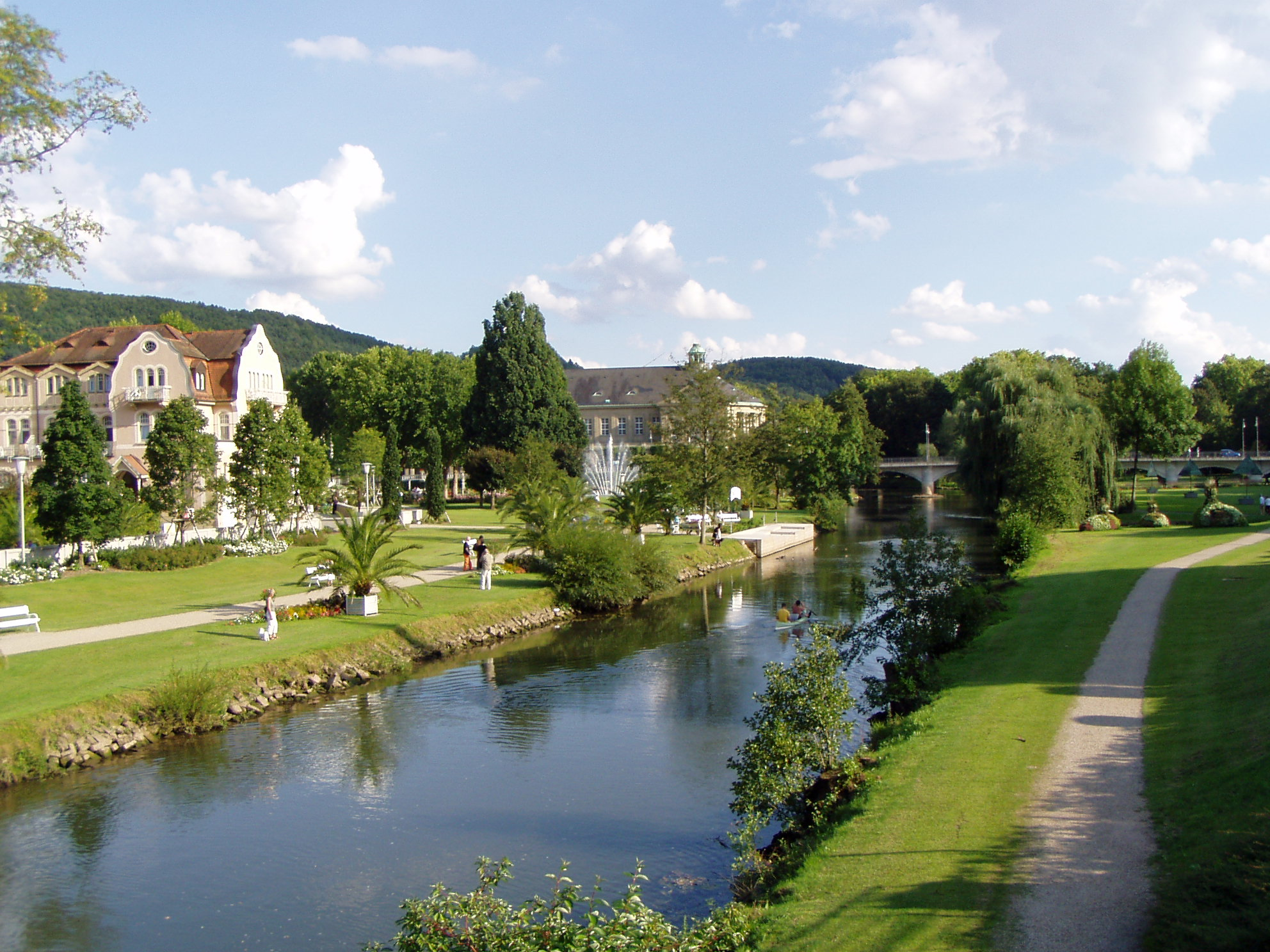 Rose garden of Bad Kissingen, Germany